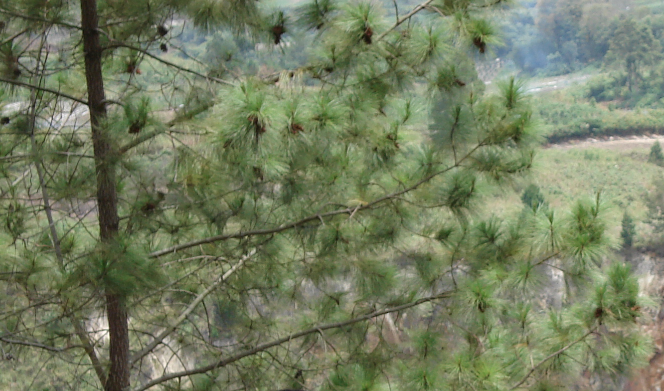 Pinus merkusii, Lake Toba, Sumatra, Indonesia